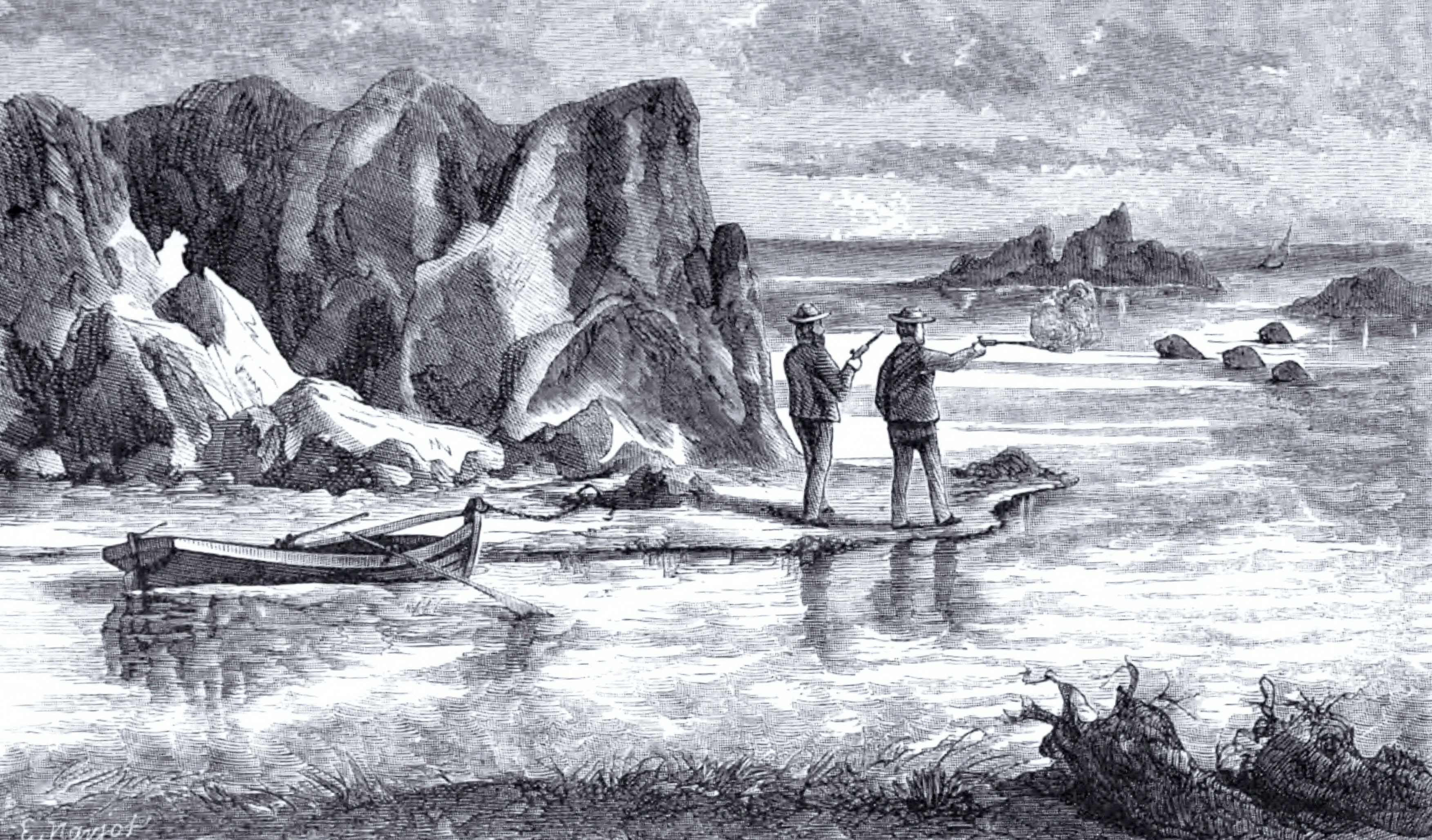 A La California (1873): Description and travel; Social life and customs written by Colonel Albert S. Evans. The number is the page number in the book. The words are the captions with each image. Follow the link to the full book.